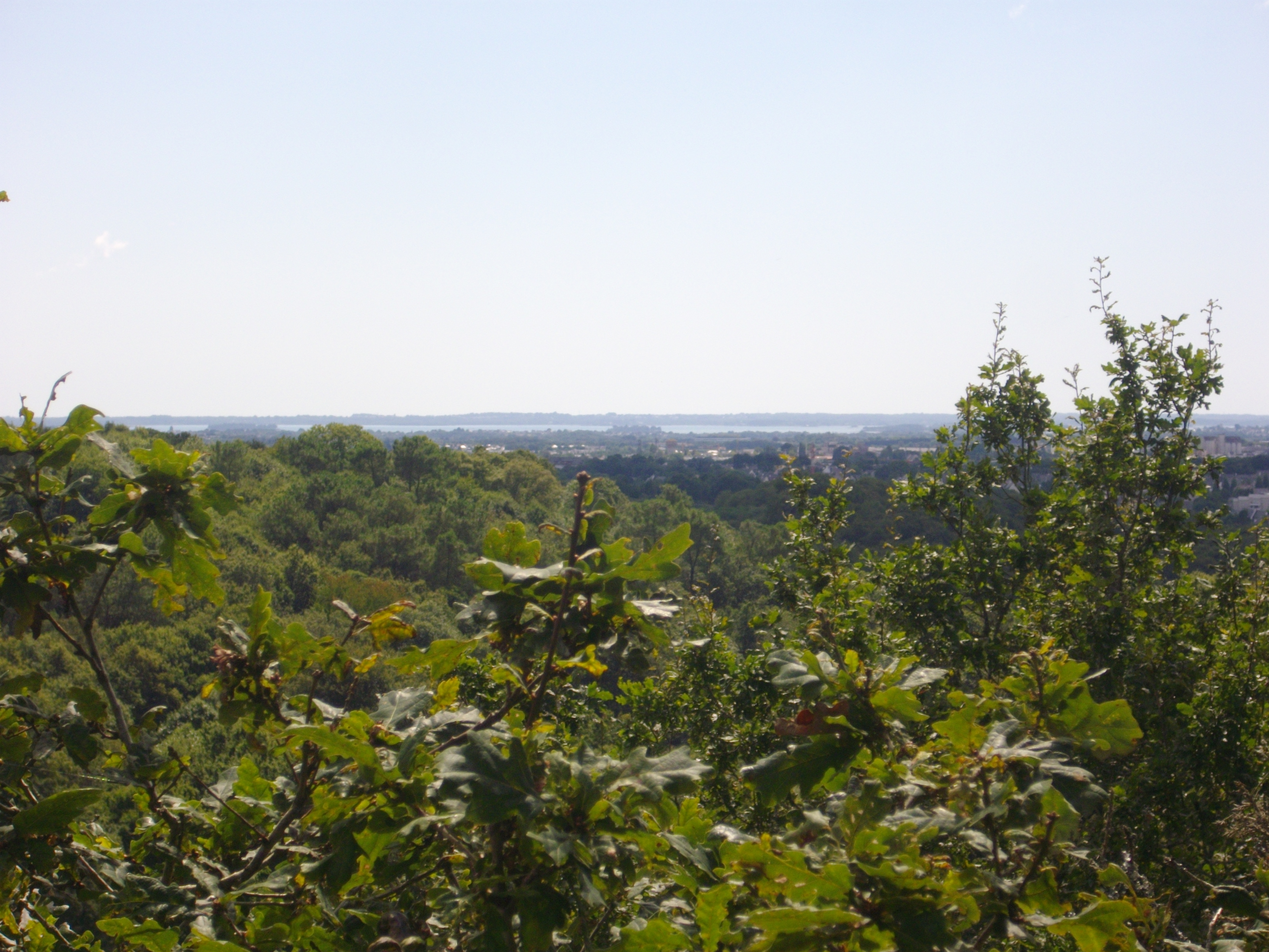 Views from "camp de César" in Saint-Avé (Morbihan, France) : gulf of Morbihan in the background